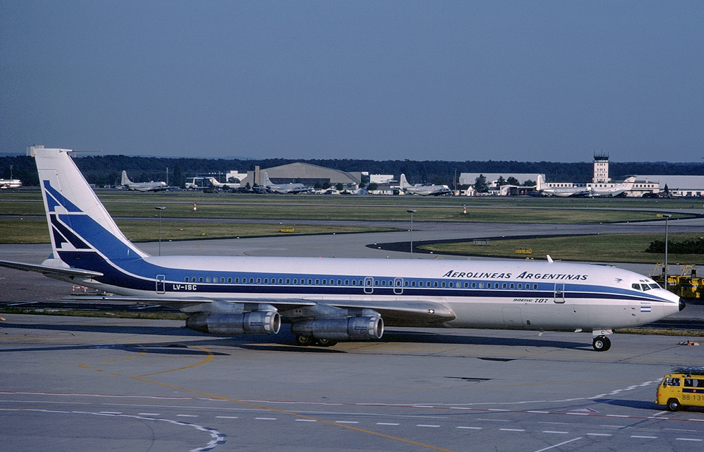 An Aerolíneas Argentinas Boeing 707-387B at Frankfurt am Main Airport